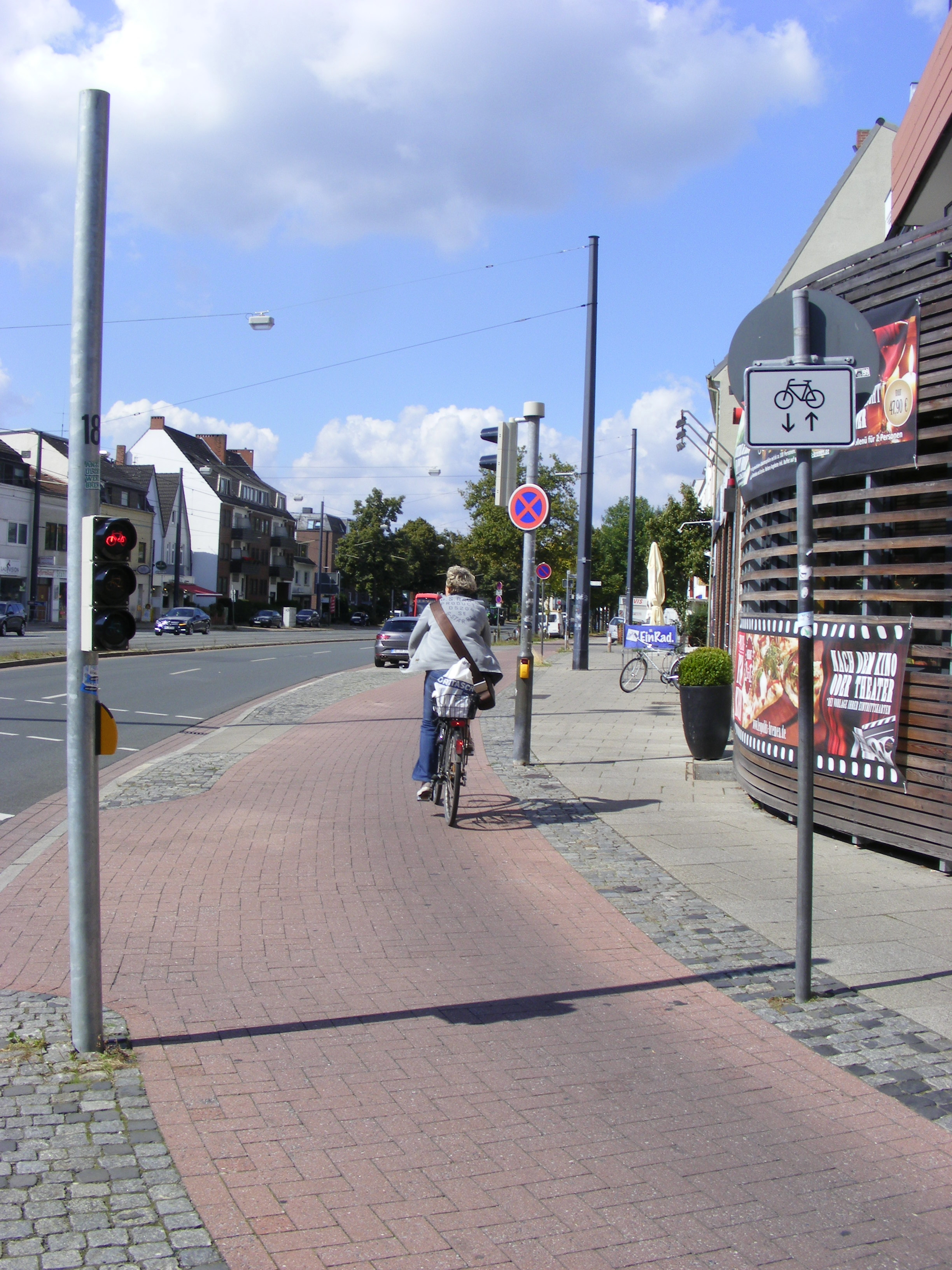 Bidirectional cycletrack in Bremen, few weeks afer conversion from obligatory to optional status